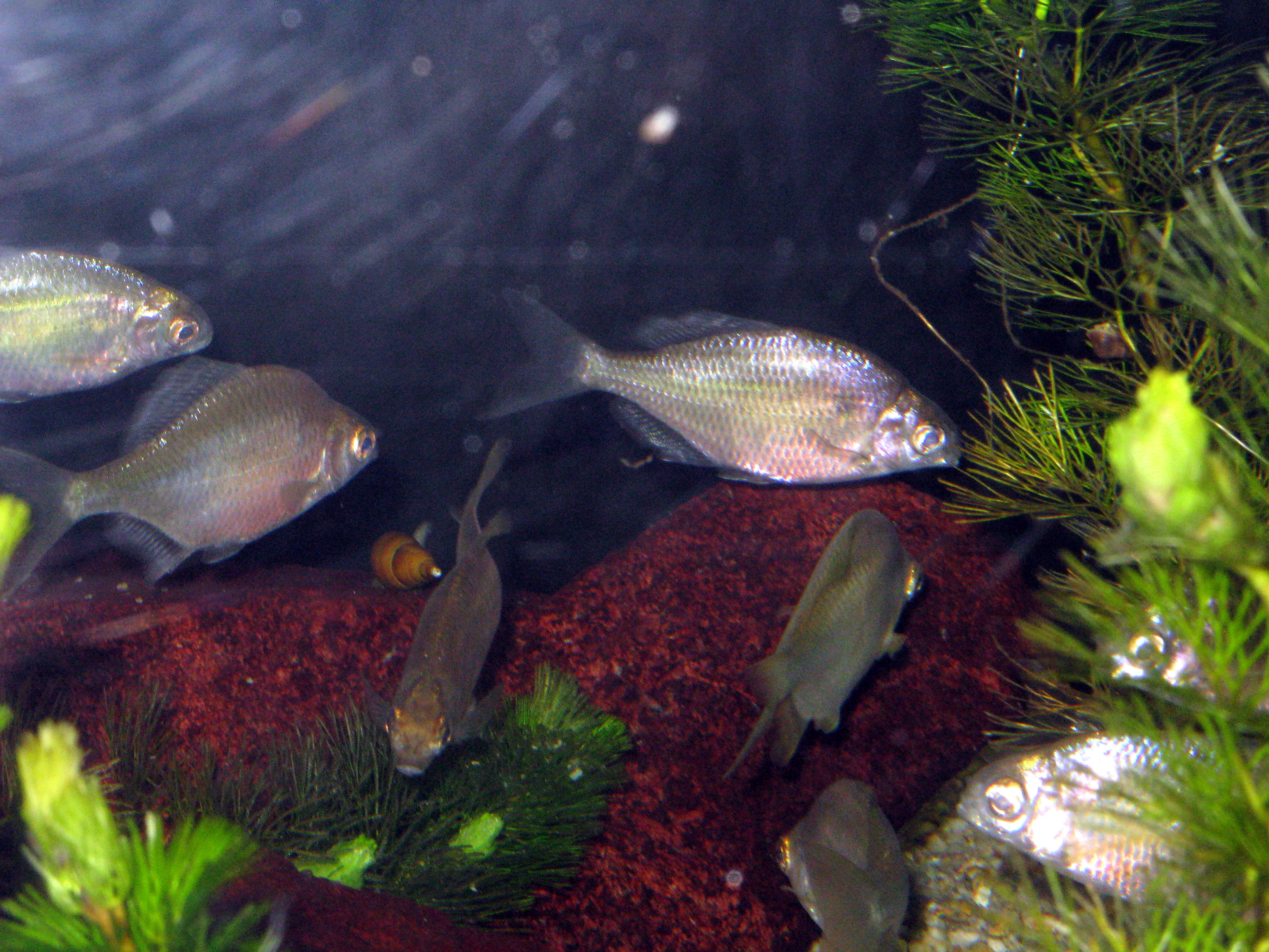 Scientific name Acheilognathus longipinnis